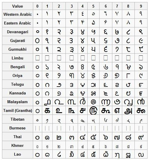 A screenshot of the table available in the Hindu-Arabic numeral system article available under GNU Free Documentation License on Wikipedia.